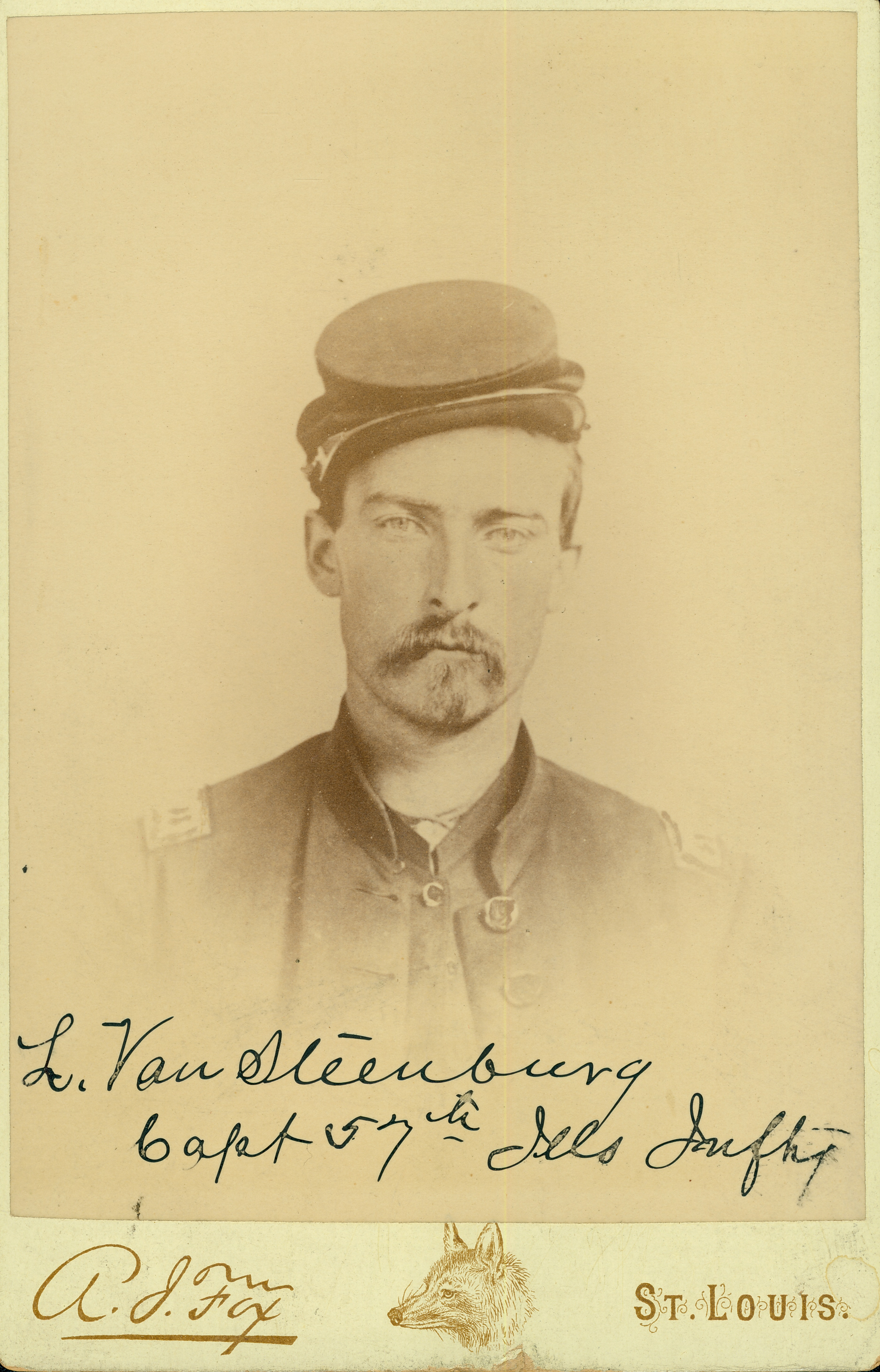 Bust portrait of Linas Van Steenburg wearing a forage cap and uniform, and facing forward. "L. Van Steenburg Capt 57th Ills. Infty" (written on the bottom of image). "A.J. Fox" and "ST. LOUIS." (printed below image).Title: Linas Van Steenburg, Captain, 57th Illinois Infantry (Union).